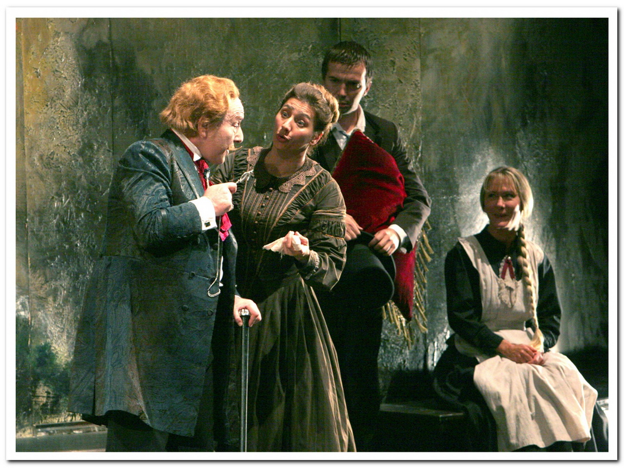 "Uncle's Dream" by Fyodor Dostoevsky, directed by Egon Savin; Drama of SNT, Novi Sad, 2006/07; Predrag Ejdus, Gordana Đurđević Dimić, Jugoslav Krajnov, Olivera Stamenković Srpski (latinica): "Ujkin san" Fjodora Dostojevskog u režiji Egona Savina, Drama SNP-a, Novi Sad, 2006/07; Predrag Ejdus, Gordana Đurđević Dimić, Jugoslav Krajnov, Olivera Stamenković Српски (ћирилица): "Ујкин сан" Фјодора Достојевског у режији Егона Савина, Драма СНП-а, Нови Сад, 2006/07; Предраг Ејдус, Гордана Ђурђевић Димић, Југослав Крајнов, Оливера Стаменковић